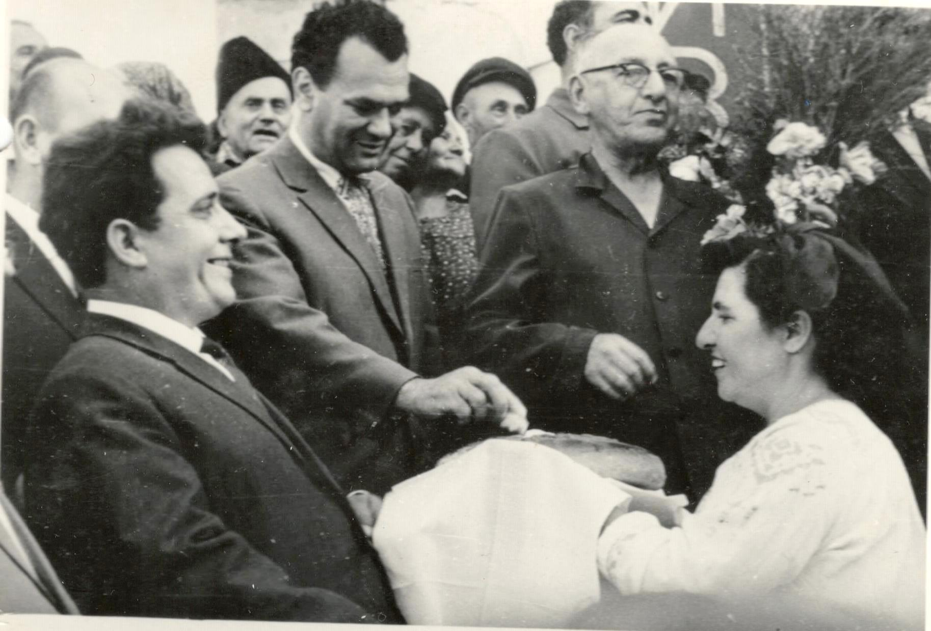 The prime secretary of the Regional Committee of the Bulgarian Communist Party in Razgrad Boncho Mitev accompanied by a Soviet delegation visiting the village of Yuper during the 20th anniversary of the local Labour Cooperative Agricultural Union in 1965.